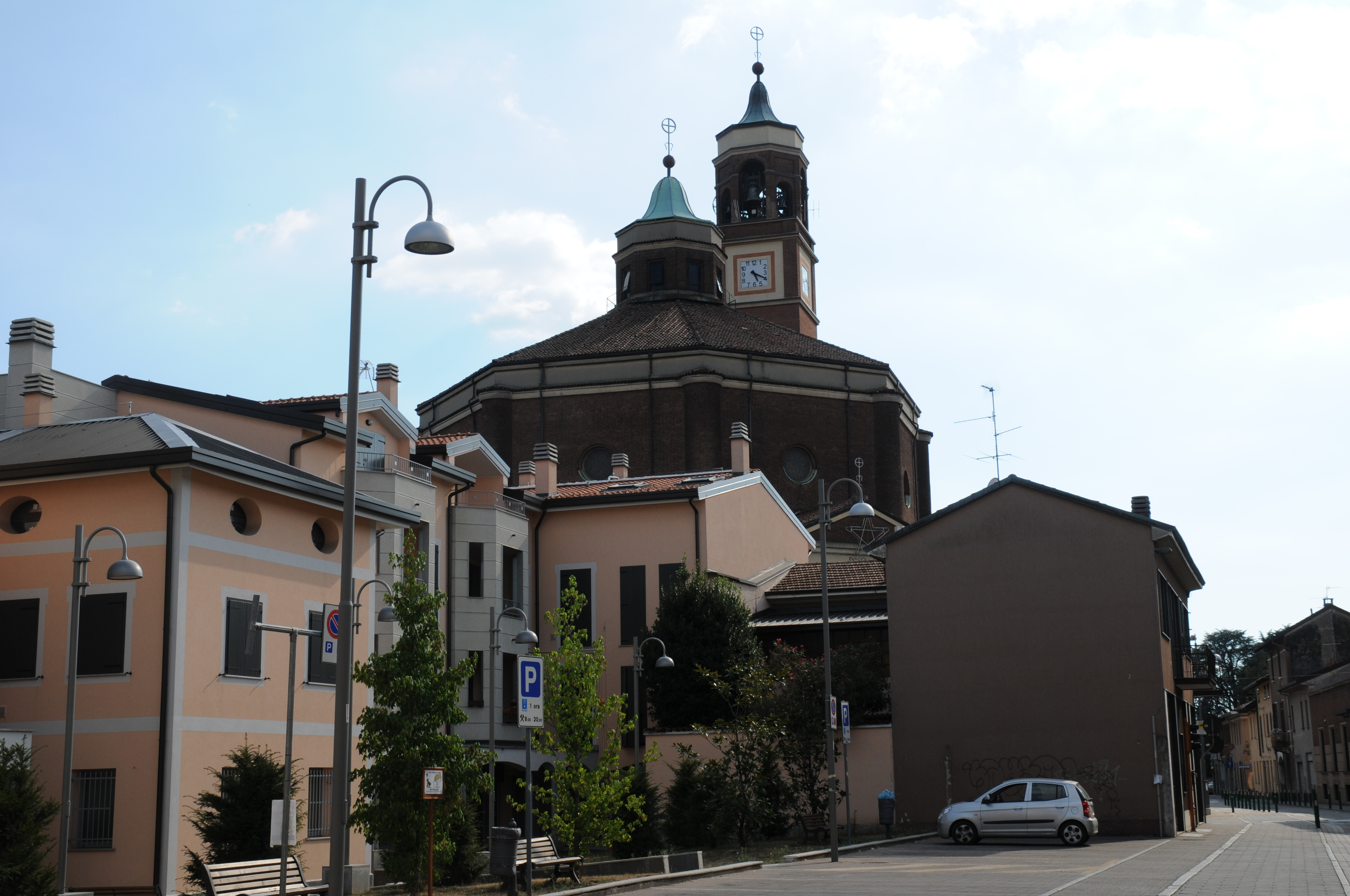 Parish Church in San Giorgio su Legnano (Italy)